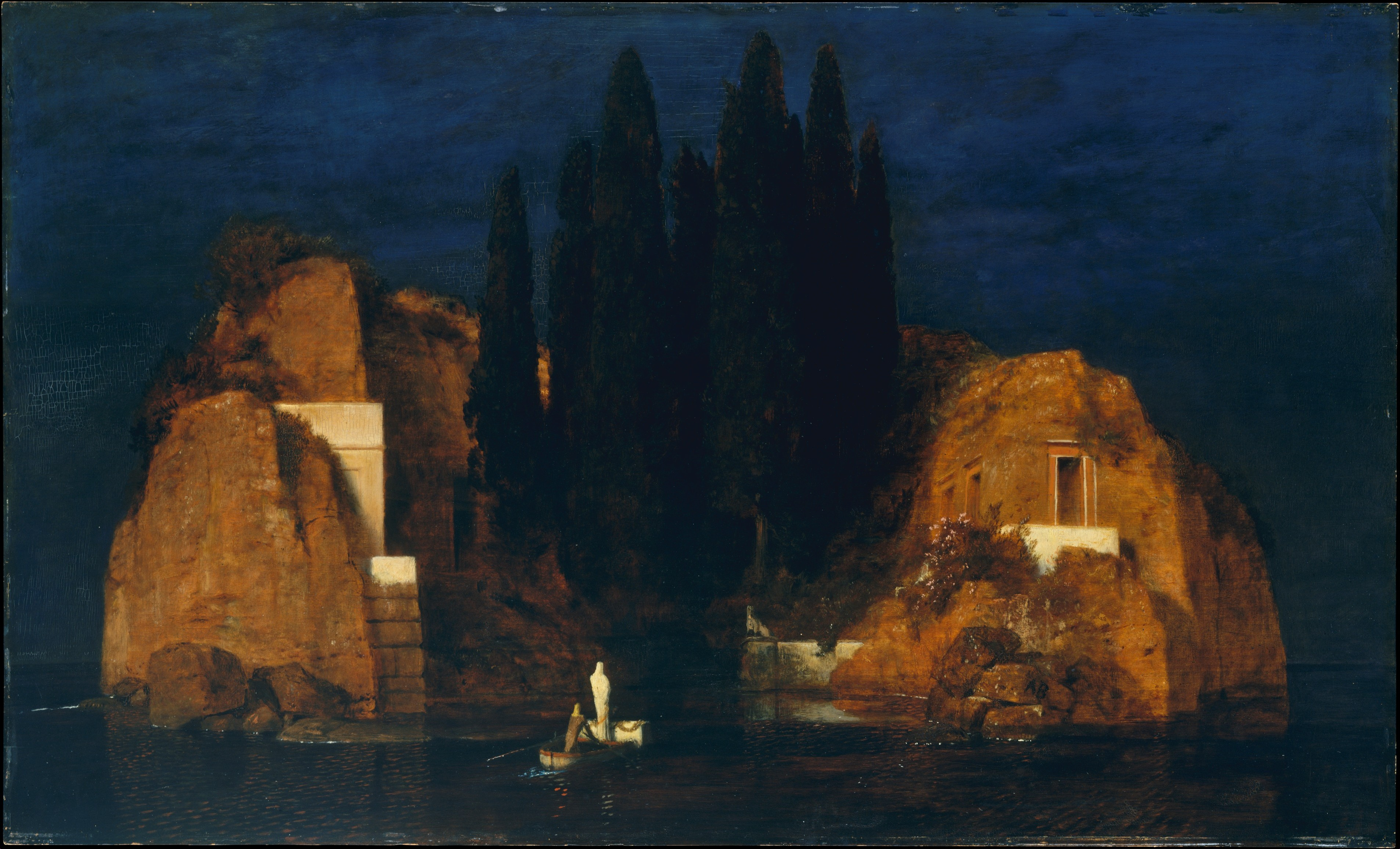 2th version